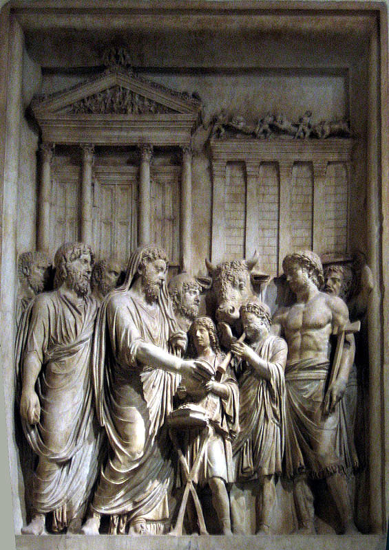 Emperor Marcus Aurelius (161-180 AD) and members of the Imperial family offer sacrifice in gratitude for success against Germanic tribes. In the backgrounds stands the Temple of Jupiter on the Capitolium (this is the only extant portrayal of this roman temple). Bas-relief from the Arch of Marcus Aurelius, Rome, now in the Capitoline Museum in Rome.